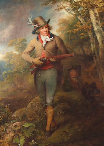 Portrait of Thomas Thornton (1751/2–1823), assiduous English sportsman.